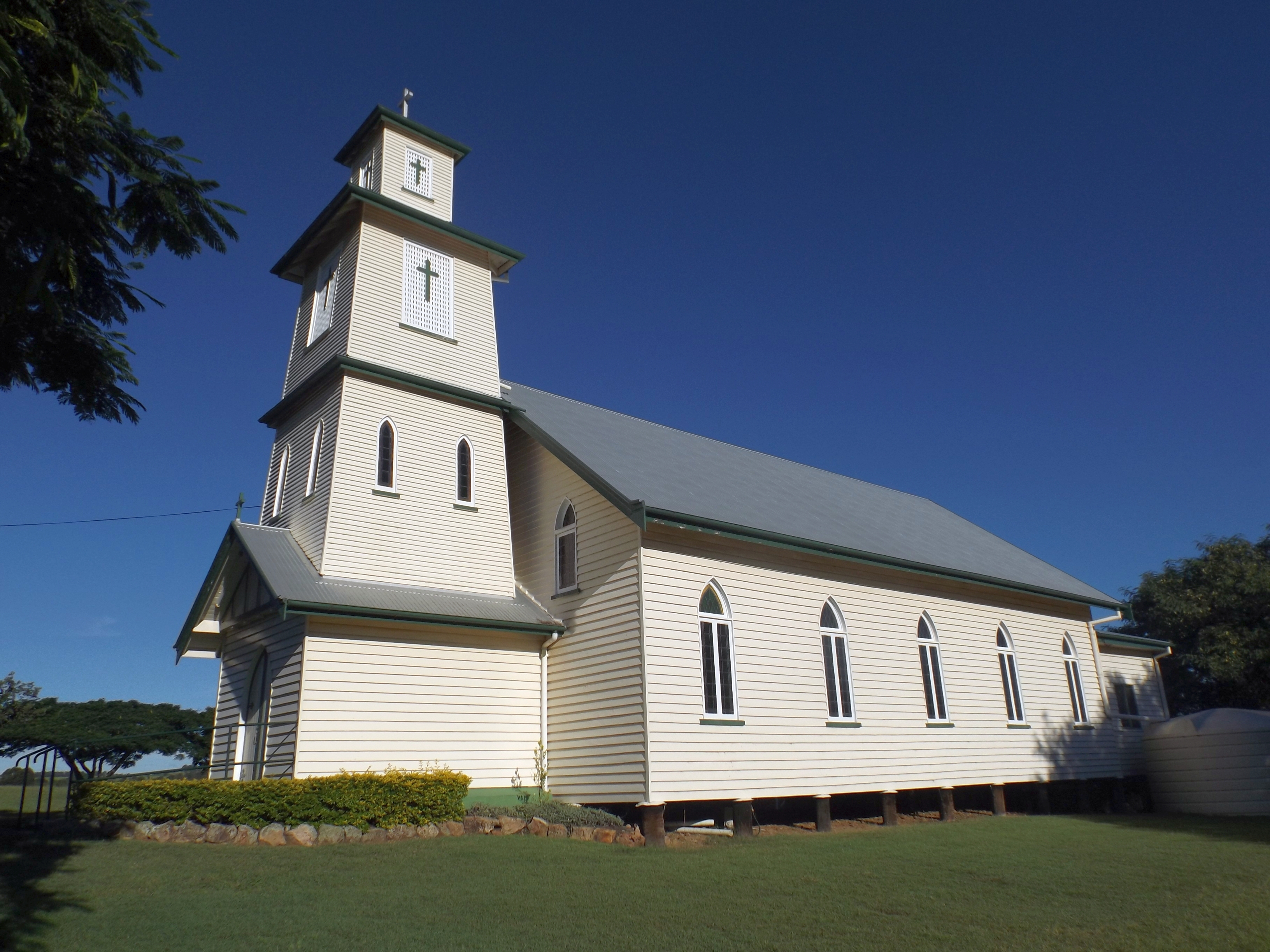 Photo of St John’s Lutheran Church at Kalbar, Scenic Rim Region, Queensland, Australia.